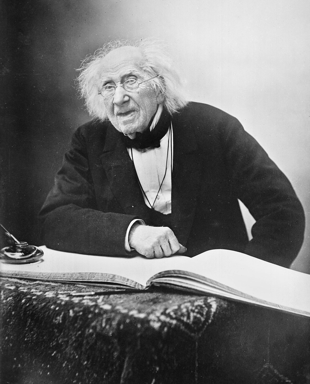 Michel Eugene Chevreul